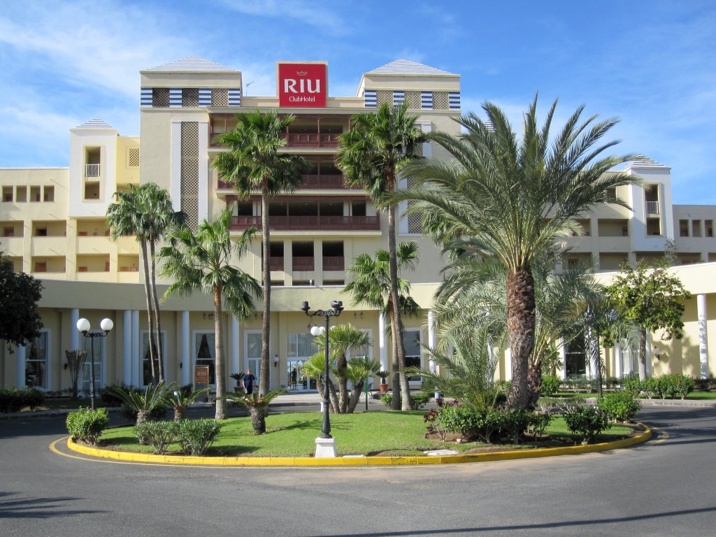 Clubhotel RIU Gran Canaria in Maspalomas, Gran Canaria.